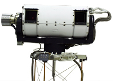 Photo of the Surface Stereo Imager (SSI) incorporated on the Mars Polar Lander